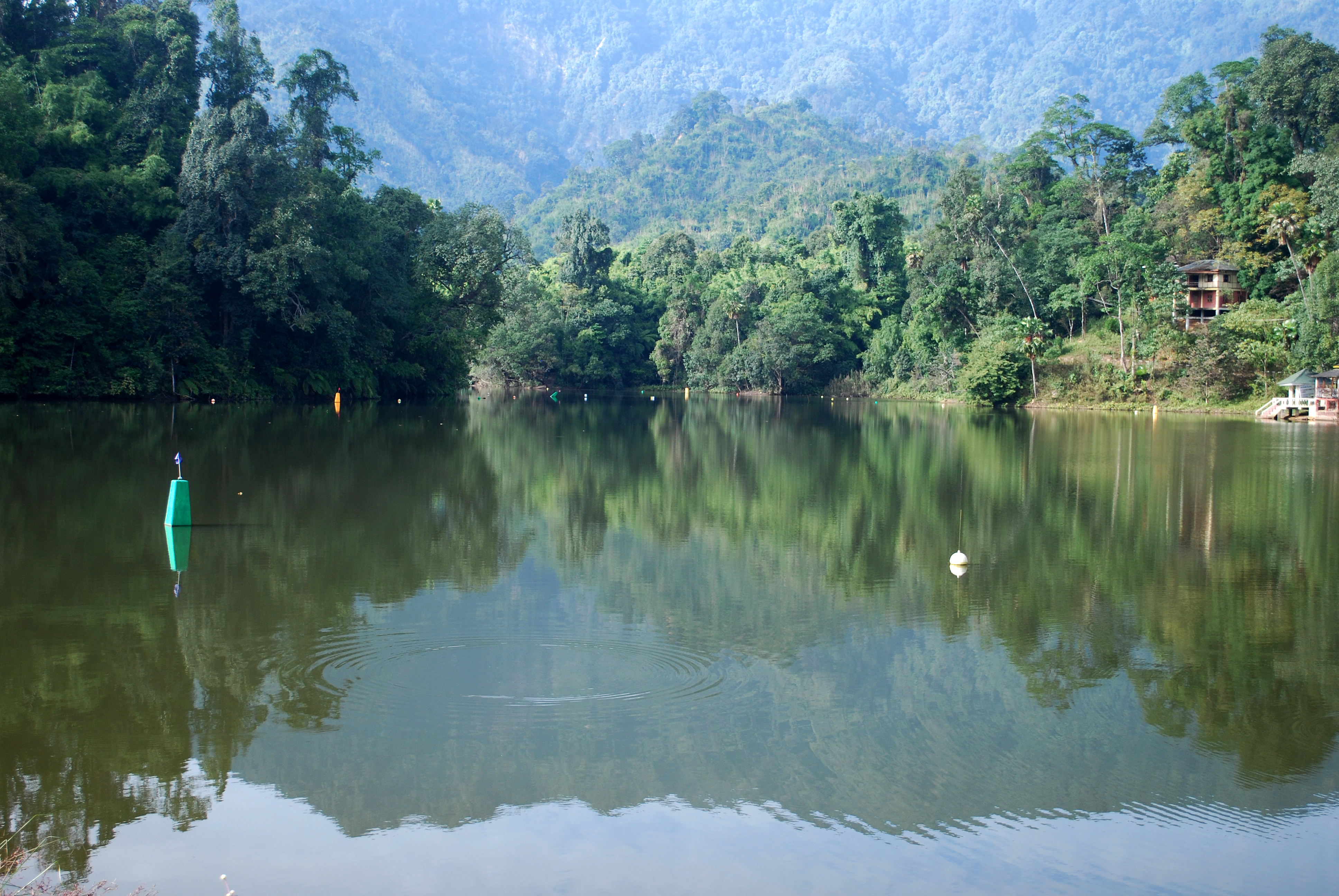 Gyakar Sinyi also known as Ganga Lake at Itanagar, Arunachal Pradesh.